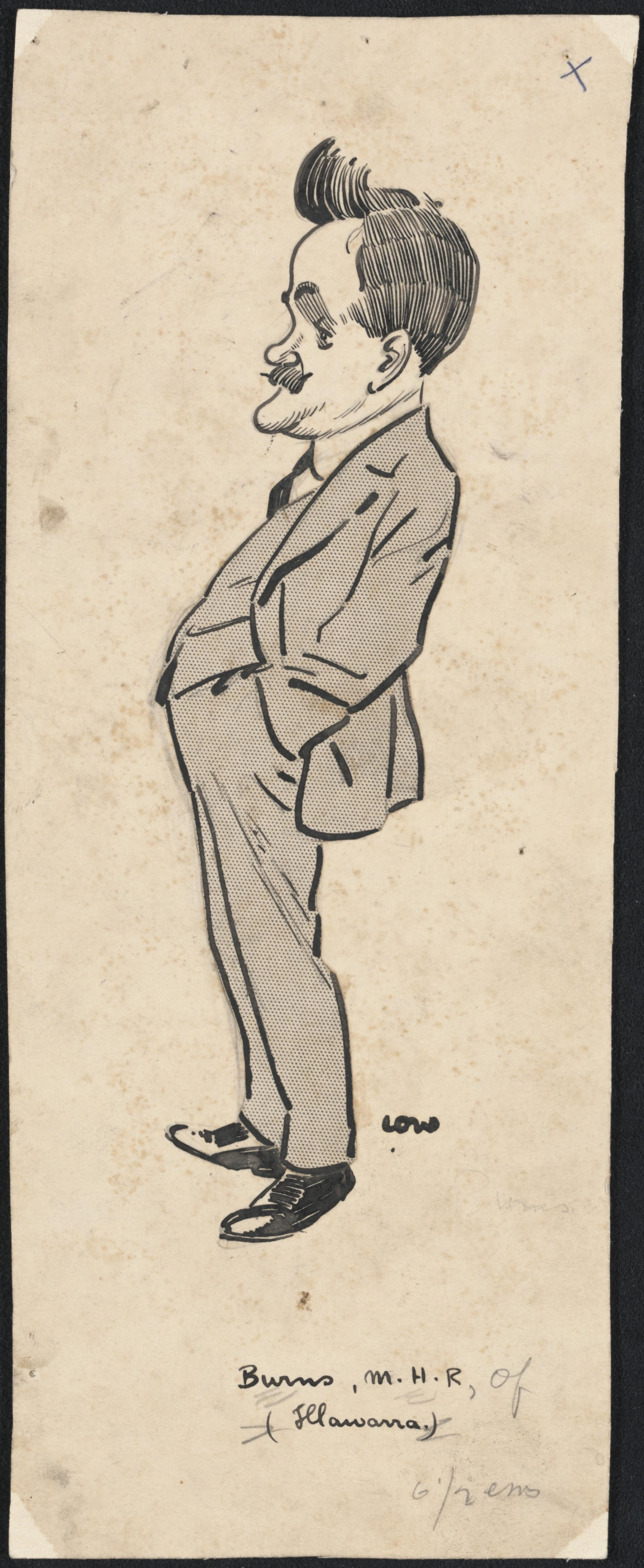 Caricature of Australian politician George Mason Burns